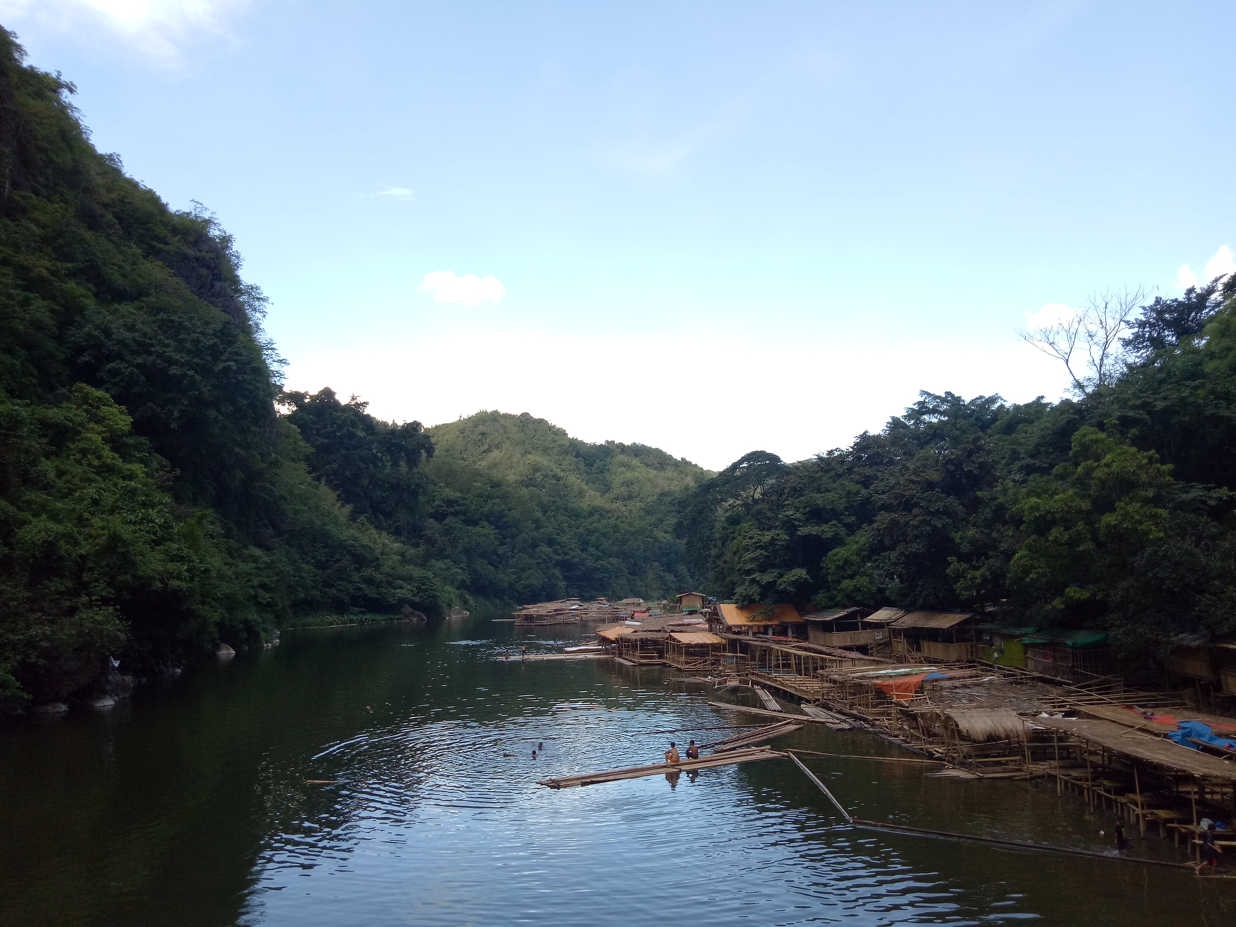 The Upper Marikina River Basin Protected Landscape, also known as the Marikina Watershed, is a protected area in Rizal Province, the Philippines, which forms the upper area of the drainage basin of the Marikina River. Photo taken in the Rodriguez part of the protected area. Uploaded as entry to Wiki Loves Earth (2018). Coordinates: 14°40′16″N 121°12′50″E